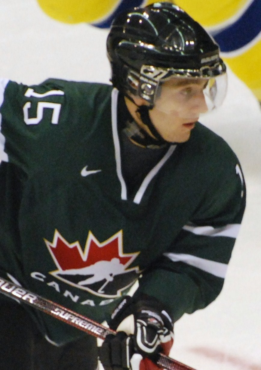 Brandon McMillan during an exhibition game prior to the 2010 World Junior Championships.